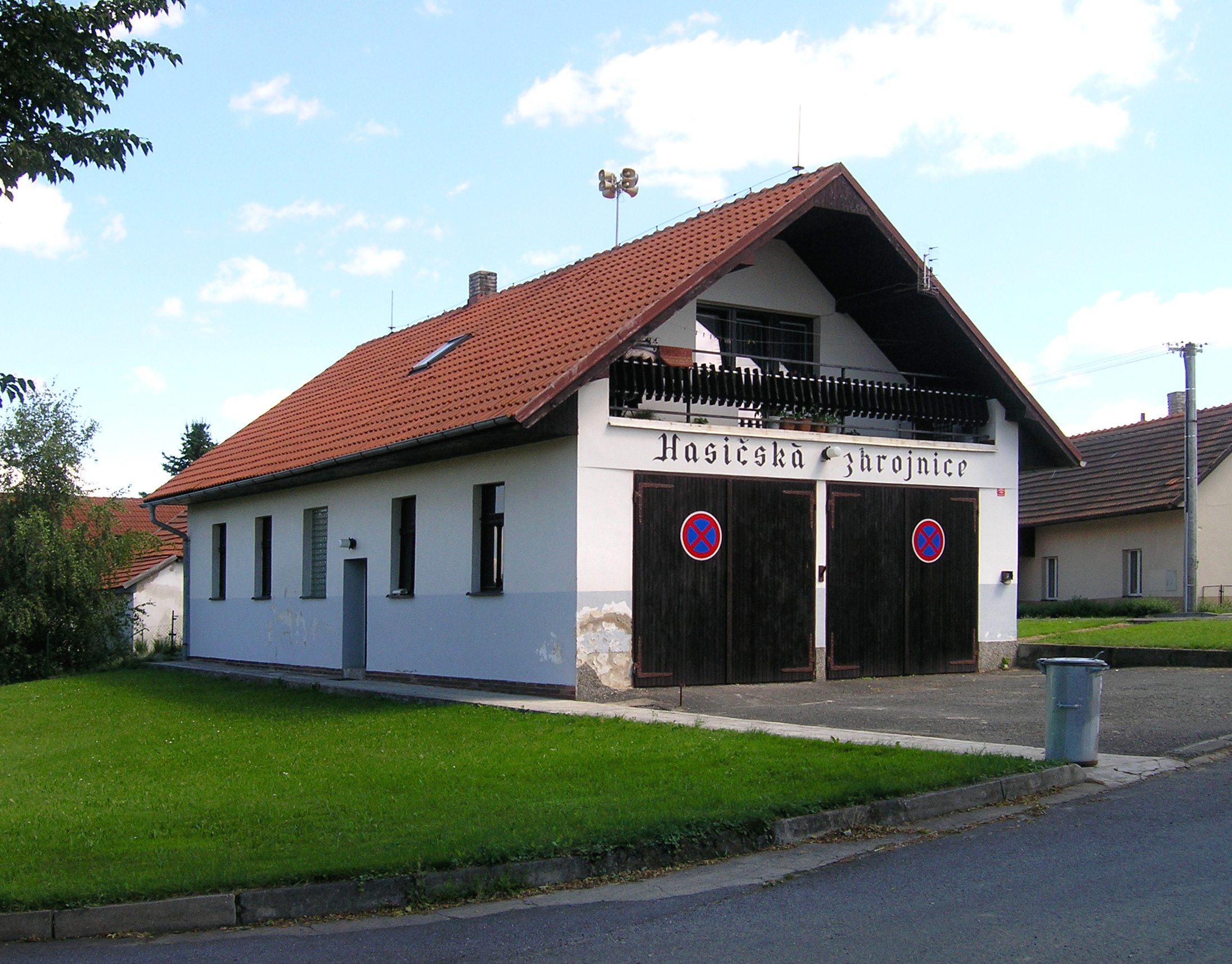 Fire house in Hořice village, Czech Republic